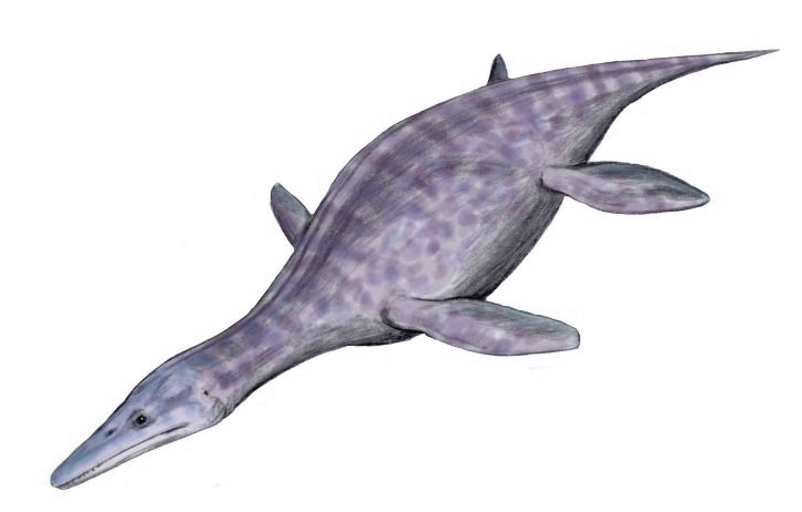 Peloneustes philarchus, a pliosaur from the Upper Jurassic of Europe, 3 m